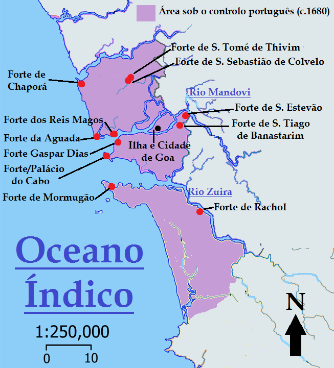 This map was based on another free-use file upload to commons (Goamap.png).